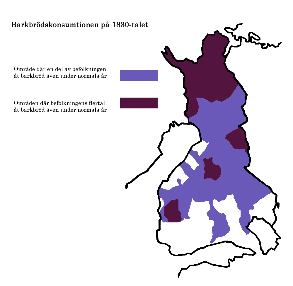 Map showing the areas where bark bread was eaten in Finland in the 1830s. Purple: Area where part of the population ate bark bread also in normal years. Wine read: Areas where the majority of the population ate bark bread also in normal years.